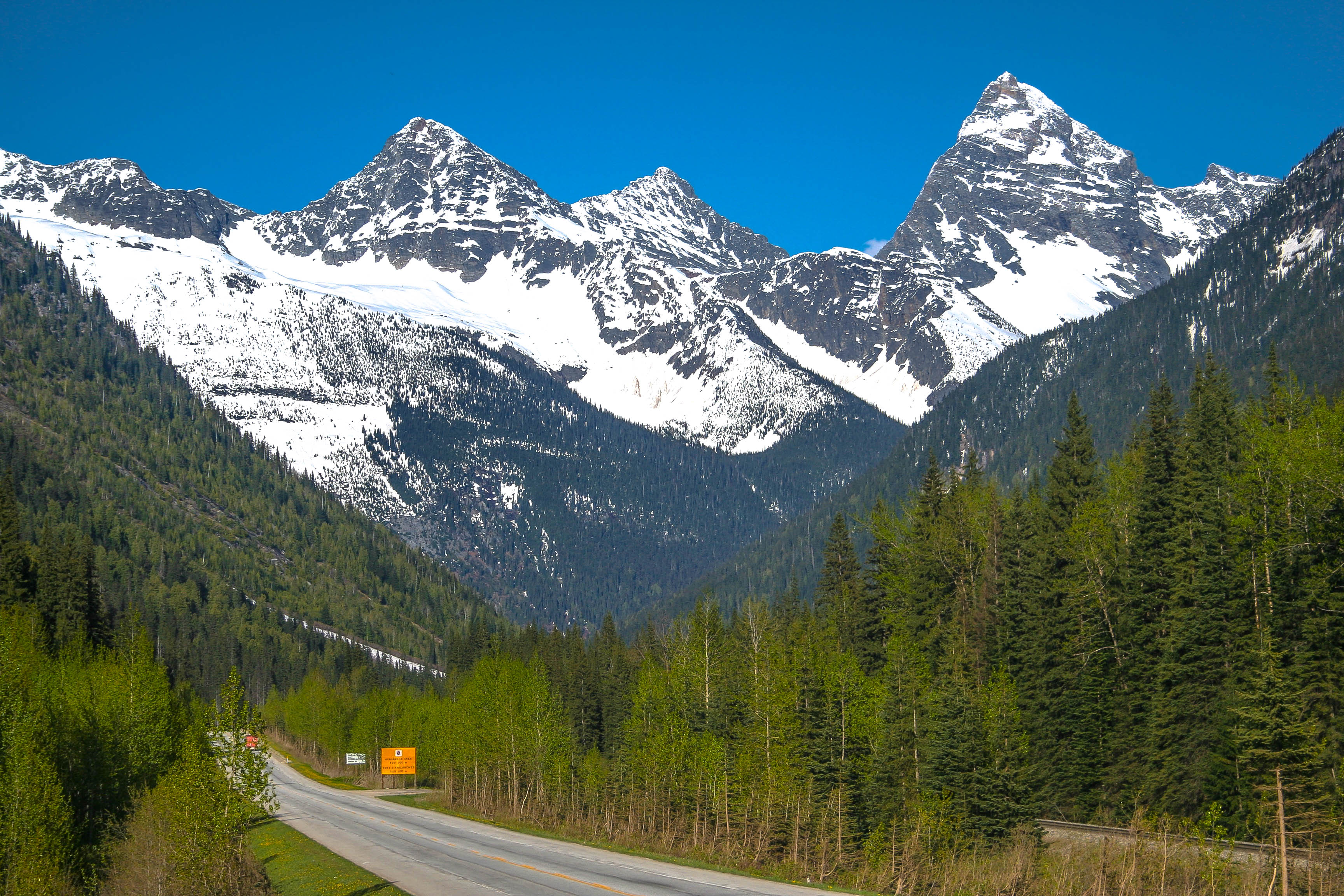 weekend trip to Mount Laurie map in Alberta for the COF (Orienteering) trials...Rogers pass mountains... Eagle Peak (left) and Mount Sir Donald (right). Canada